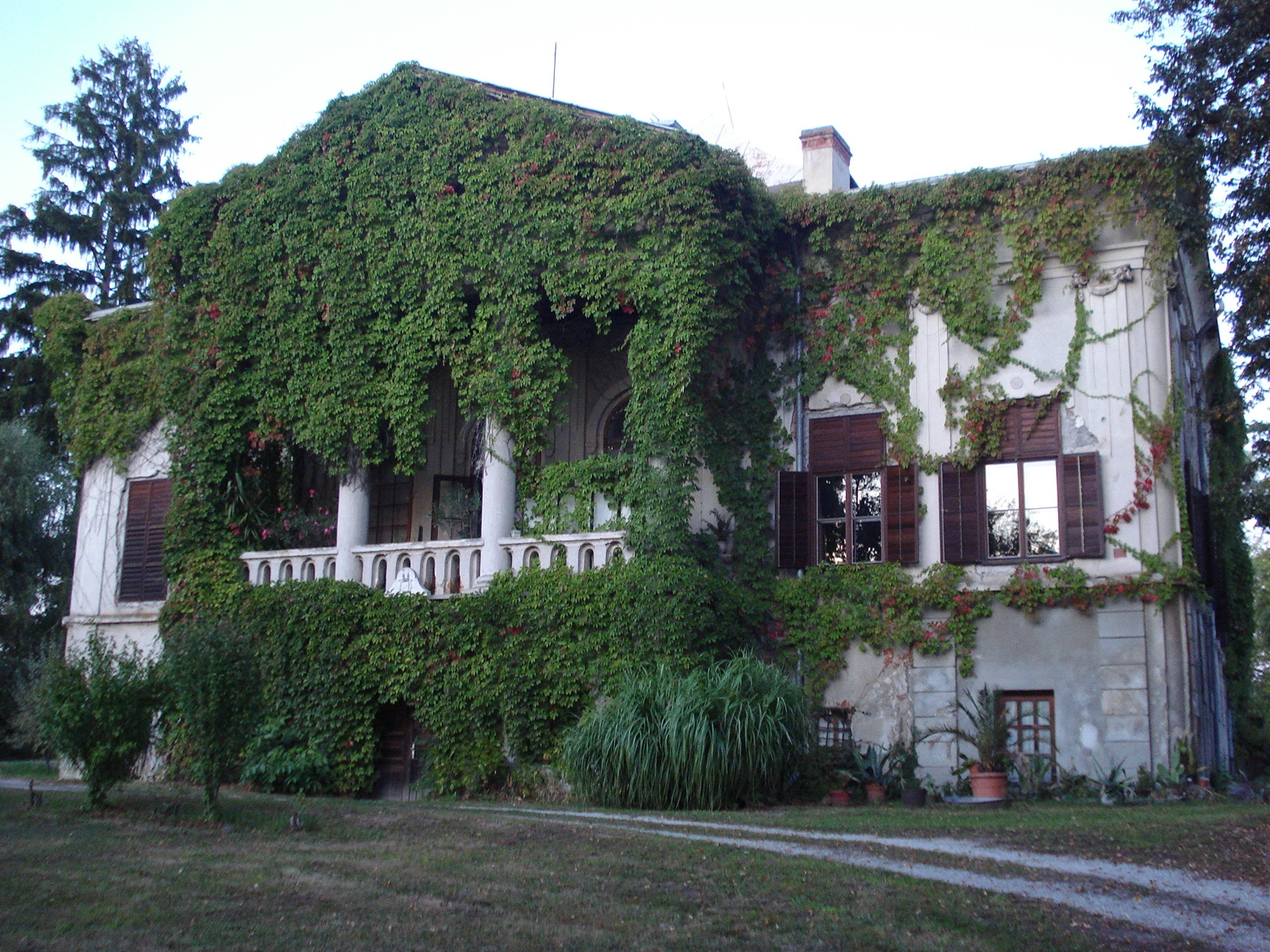 Hellenbach Castle in Marija Bistrica, Croatia - southwest view